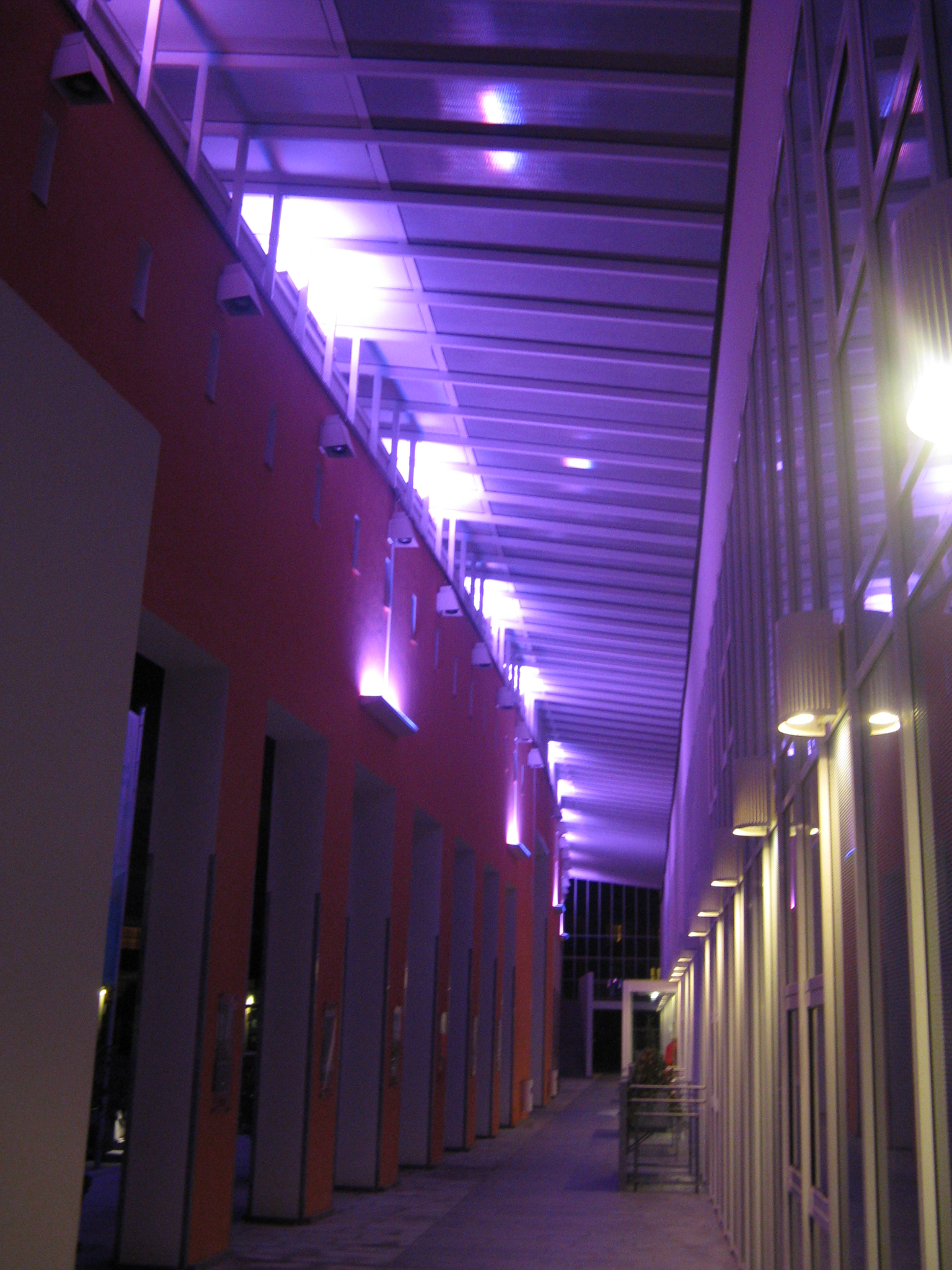 Spa centre Bad Gögging, Germany, at night